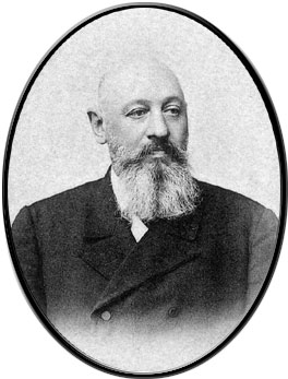 The picture of Dmitriy Sipyagin, Russian Internal Minister in 1900-02